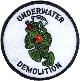 Shoulder sleeve patch of the Underwater Demolition Teams. The patch displays the UDT mascot, Freddy the Frog.